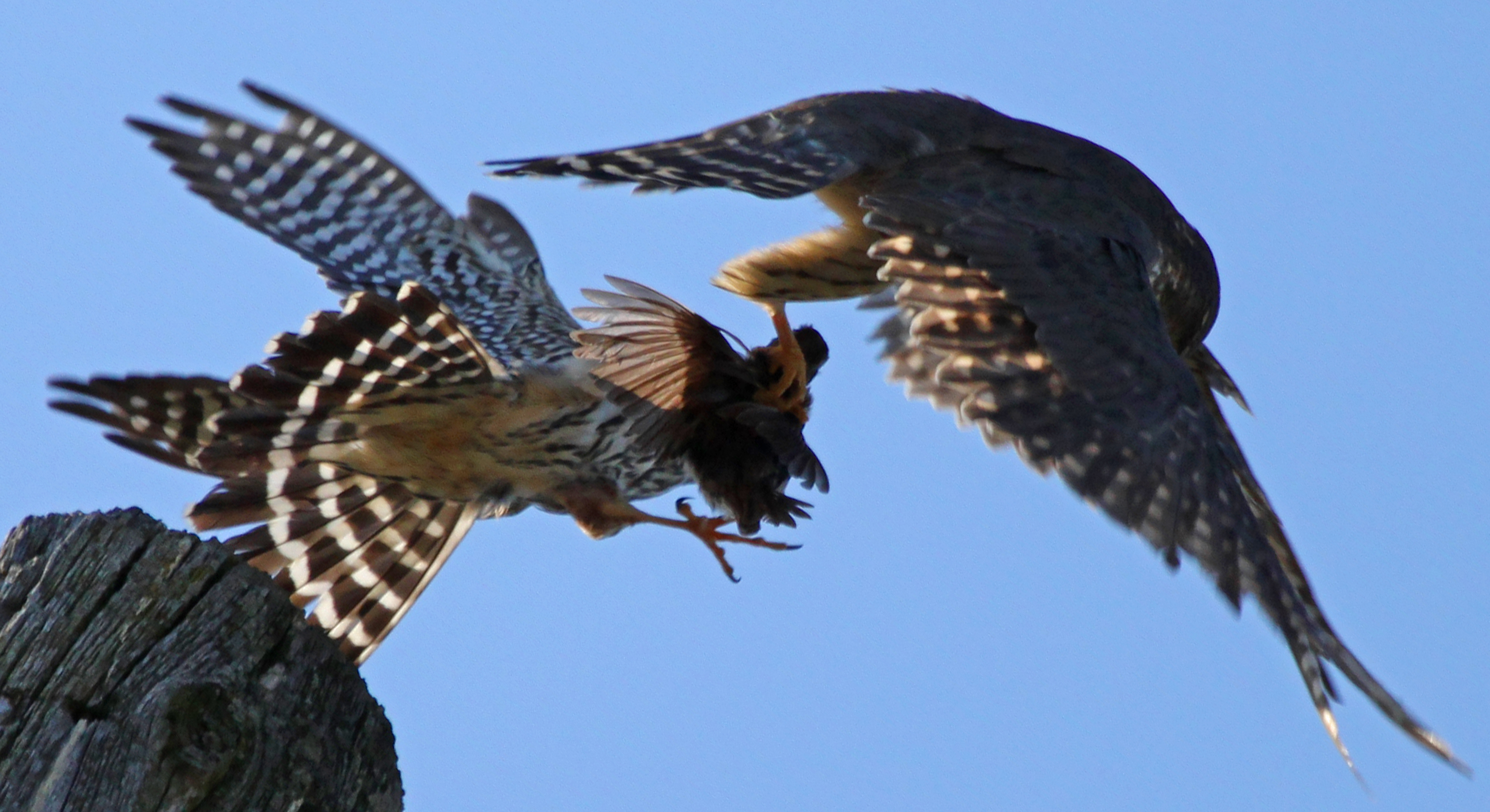 Falco columbarius pair fighting over prey, Auburn, New York, USA